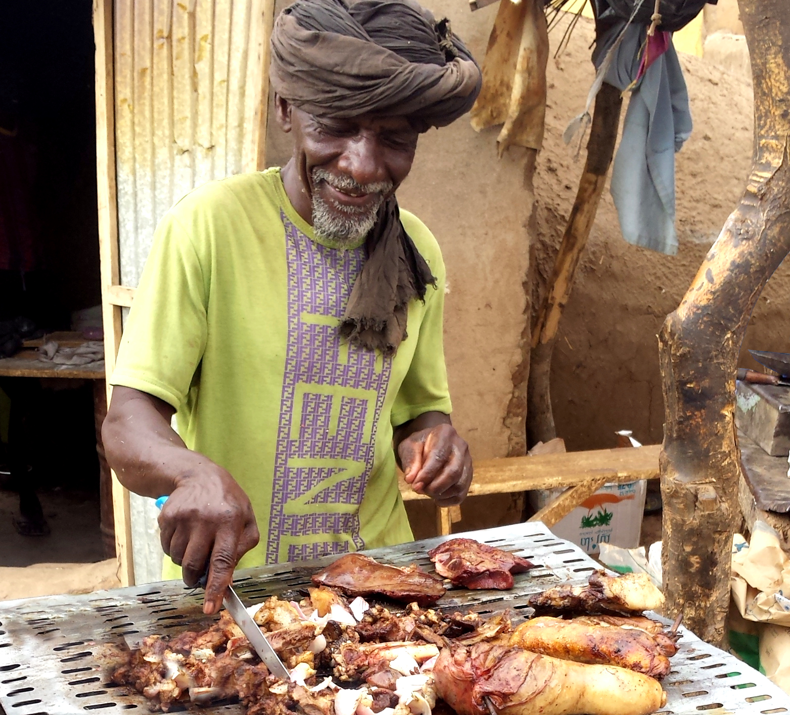 Cooking goat in a little village in the south of Mauritanie This is an image of "African people at work" from Mauritania